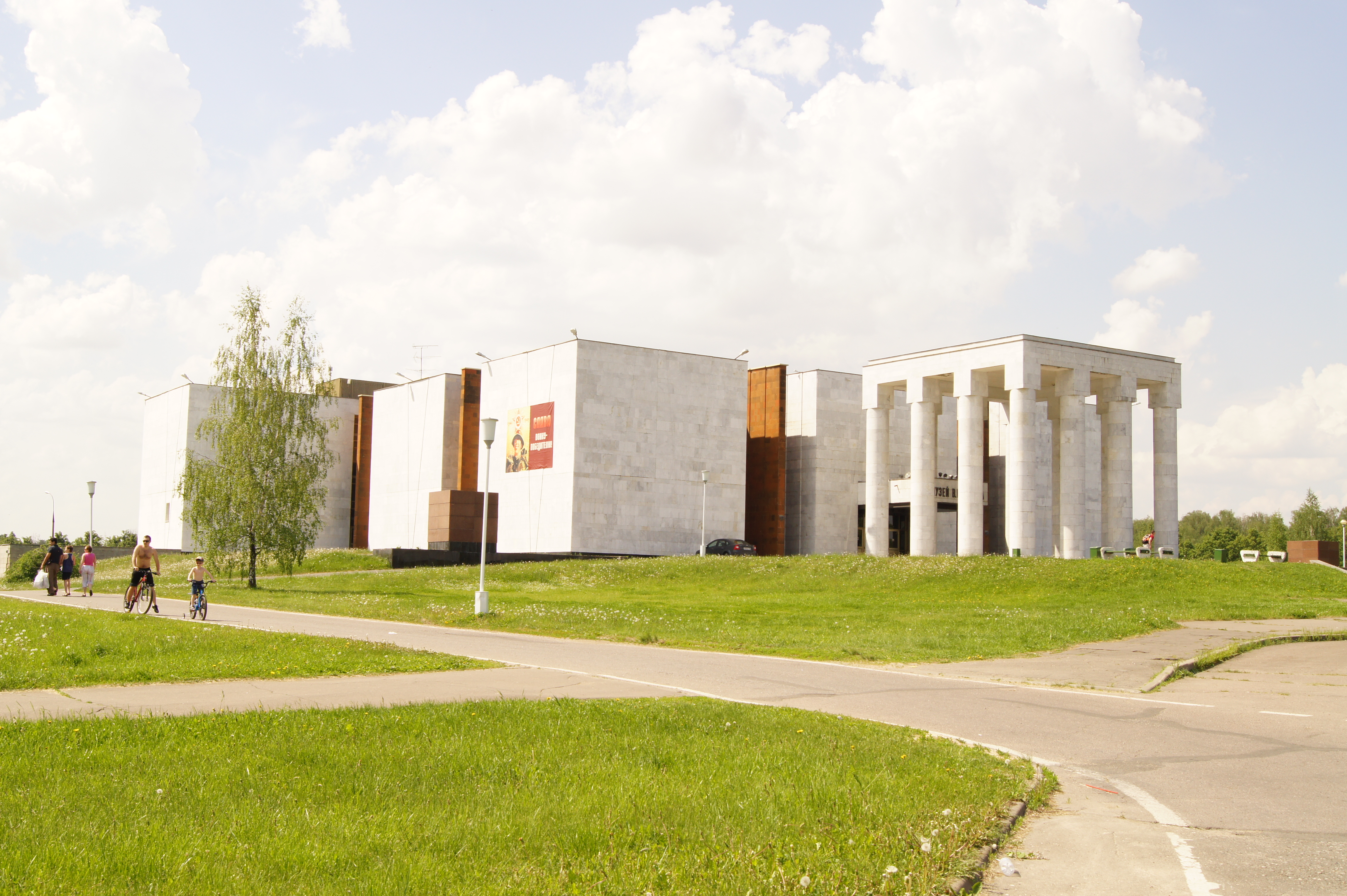 Gorki Leninskiye